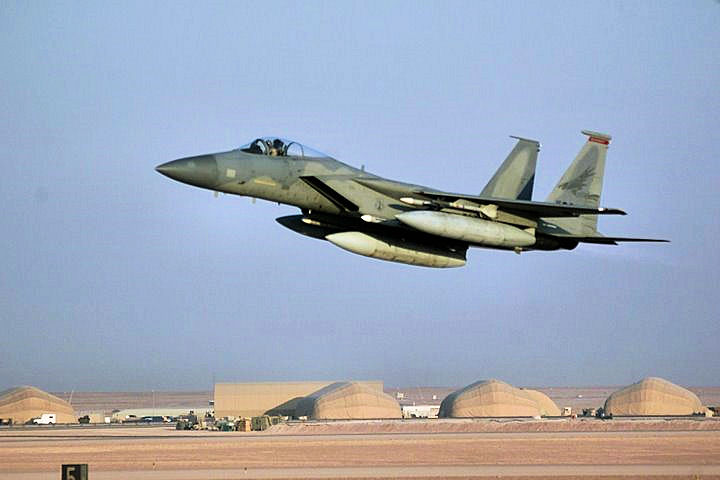 An F-15 Eagle takes off at Prince Sultan Air Base, Saudi Arabia, during Operation SOUTHERN WATCH. These Aircraft are a part of the coalition forces of the 363d Air Expeditionary Wing, Prince Sultan Air Base, Saudi Arabia that enforces the no-fly and no-drive zone in Southern Iraq to protect and defend against Iraqi aggression. (U.S. Air Force photo by Staff Sergeant Sean M. Worrell) (RELEASED)